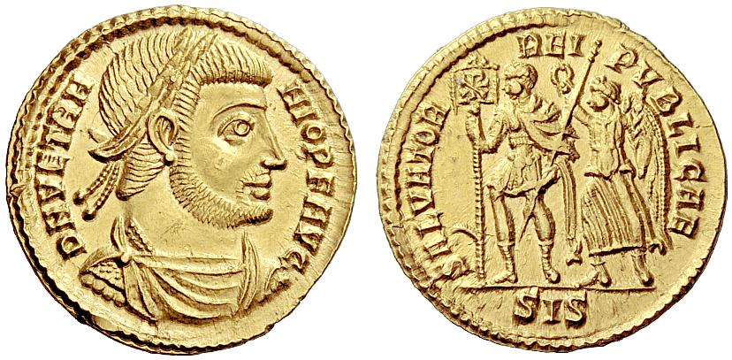 Vetranio, AD 350, Solidus, Siscia March-December 350, AV 4.60 g. D N VETRA – NIO P F AVG Laureate, draped and cuirassed bust right. Rev. SALVATOR – REI – PVBLICAE Emperor, in military attire, standing facing, head left, holding labarum inscribed with Christogram and transversal sceptre; behind him, Victory advancing left to crown him. C 7. RIC 260. Depeyrot 17/1.